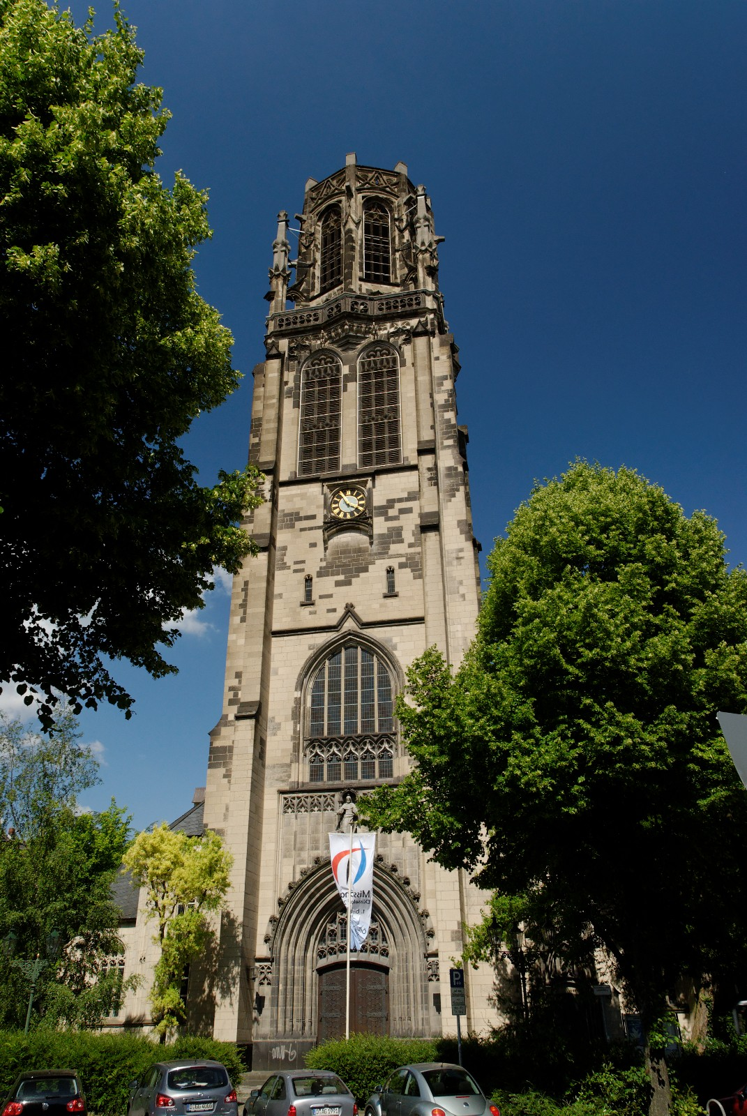 Sacred Heart Church in Düsseldorf-Derendorf, Germany